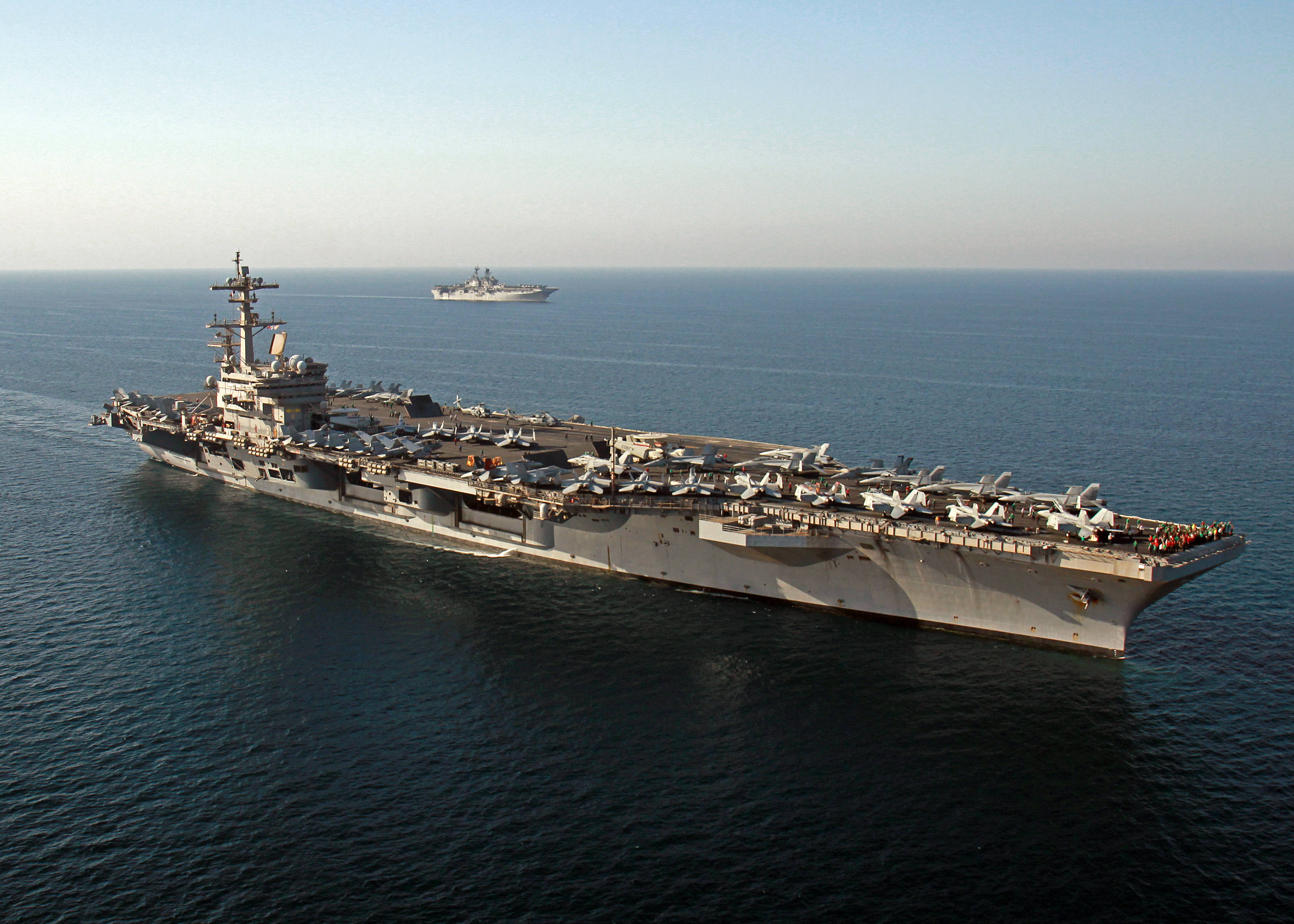 ARABIAN GULF (Oct. 01, 2014) The amphibious assault ship USS Makin Island (LHD 8) pulls alongside the aircraft carrier USS George H.W. Bush (CVN 77) for a vertical replenishment (VERTREP). George H.W. Bush is supporting maritime security operations, strike operations in Iraq and Syria as directed, and theater security cooperation efforts in the U.S. 5th Fleet area of responsibility. (U.S. Navy photo by Lieutenant Juan D. Guerra/Released)